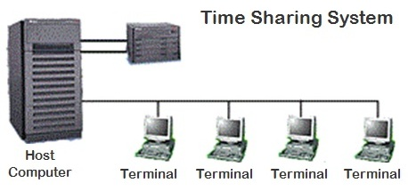 This is a Time Sharing System model picture